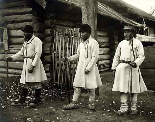 Mari pagan priests - karts